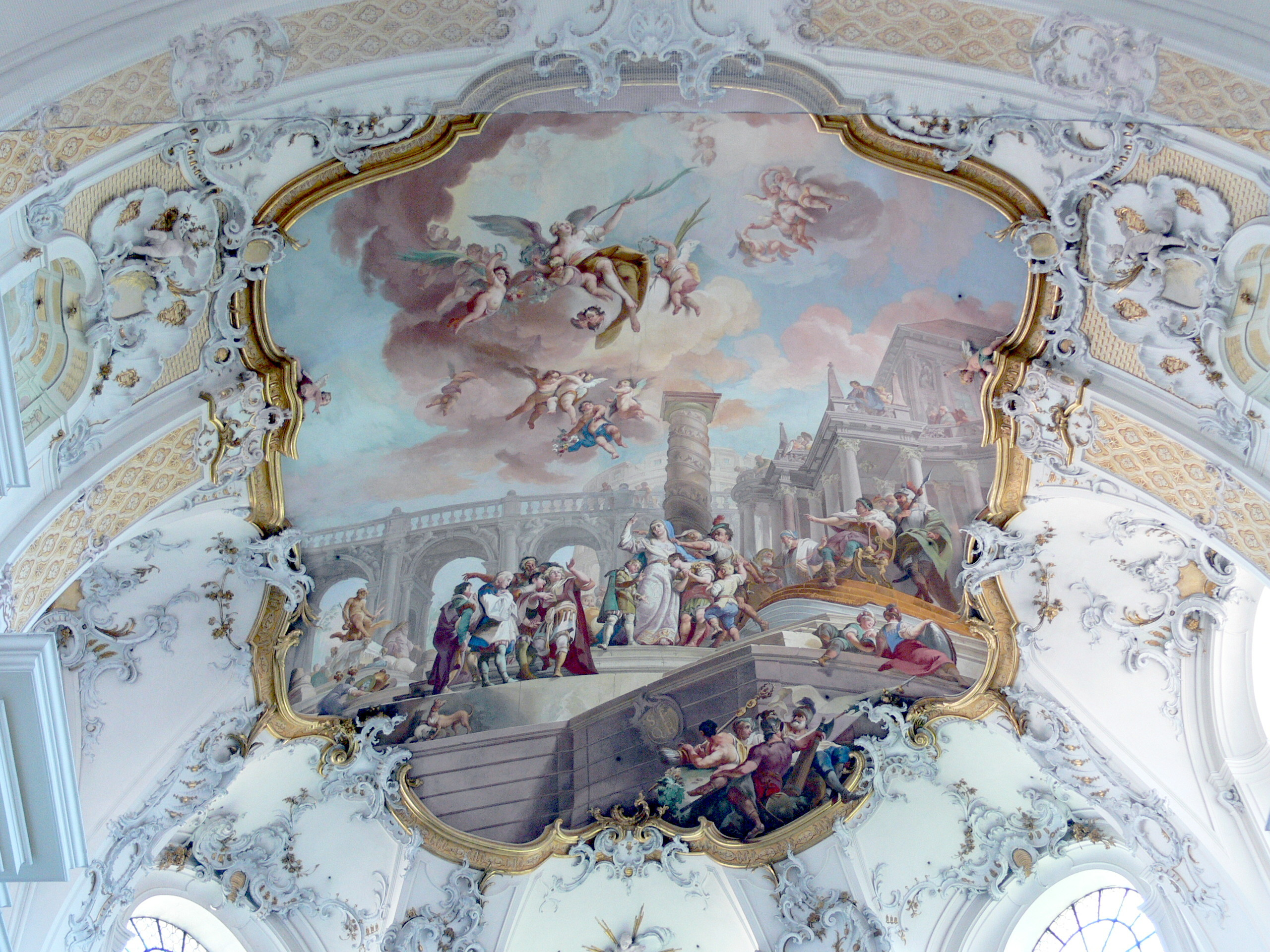 Basilica of Ottobeuren. Fresco "Damnation of Saint Felicity and her 7 sons" ( 1758 ) by Franz Anton Zeiller in the transept.